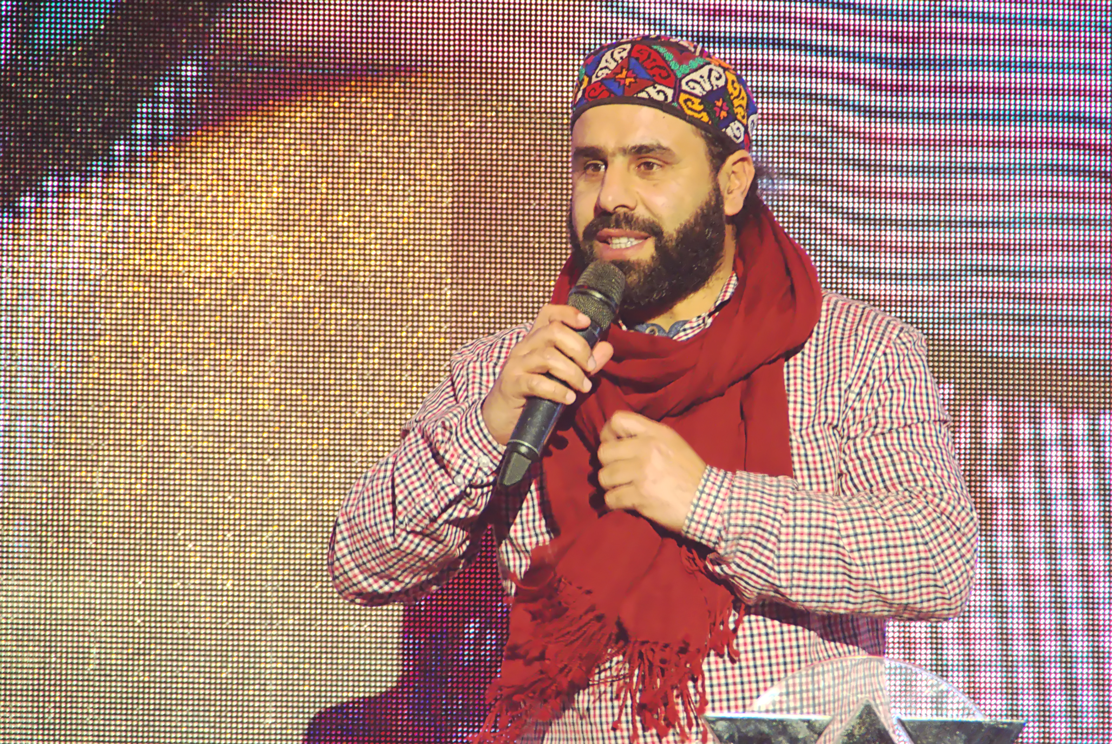 Tunisia Web Awards ceremony in Tunis